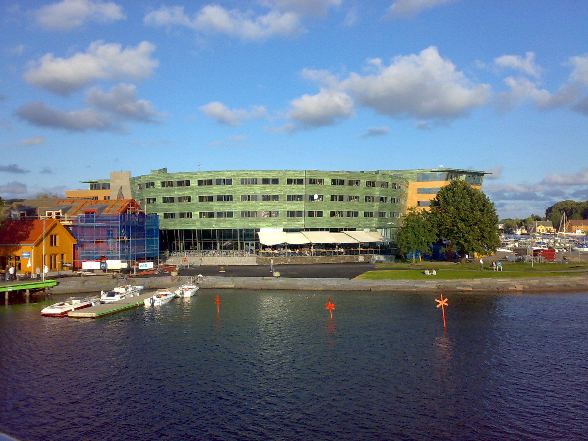 Oseberg Kulturhus - Tönsberg, Norway